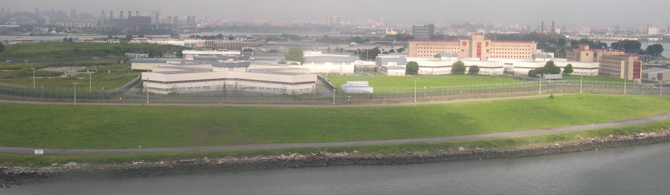 Rikers Islands of Queens New York